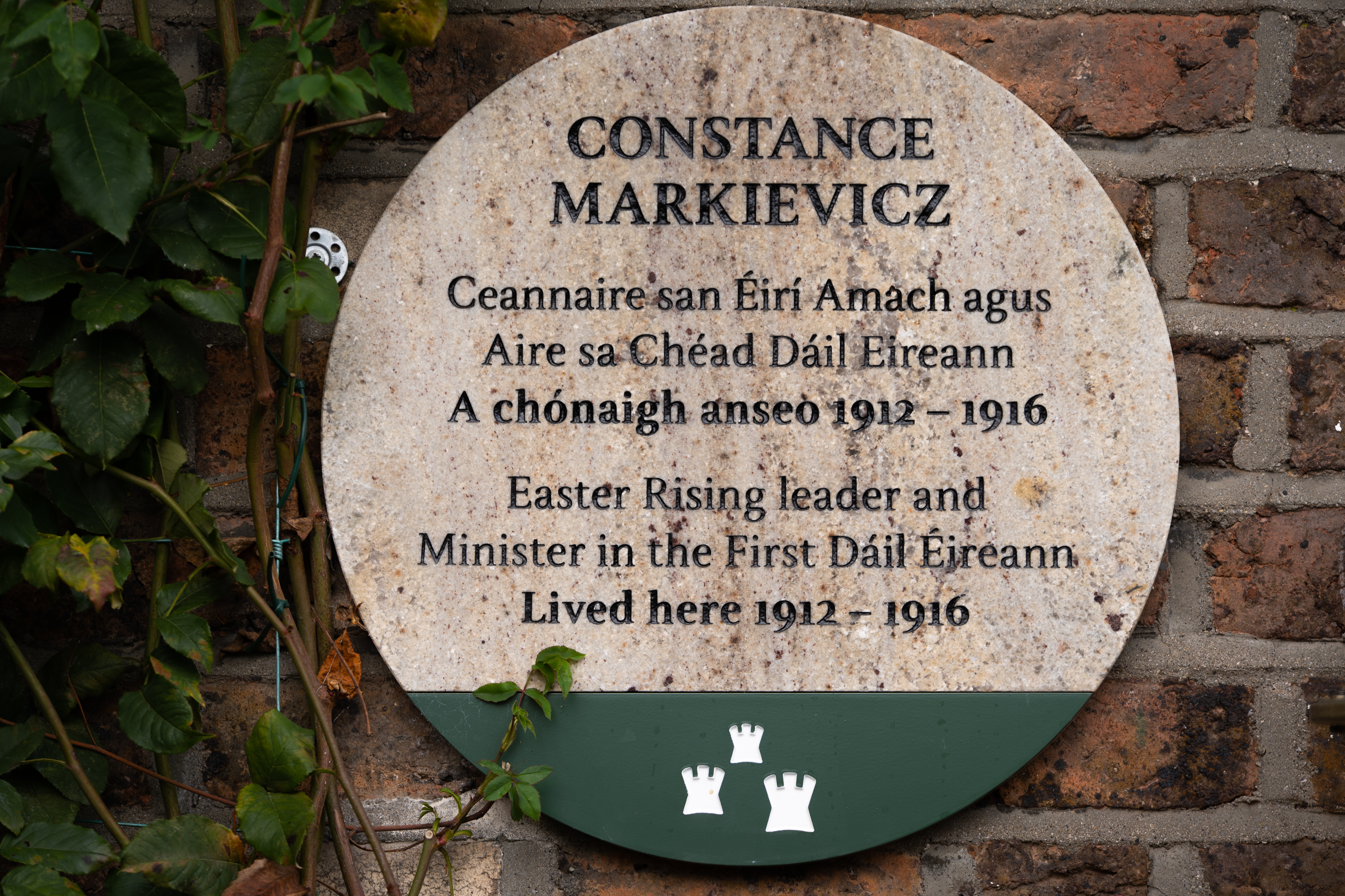 A Dublin City Council 1916 Commemorative plaque, unveiled on 15th July 2019, to commemorate Constance Markievicz.